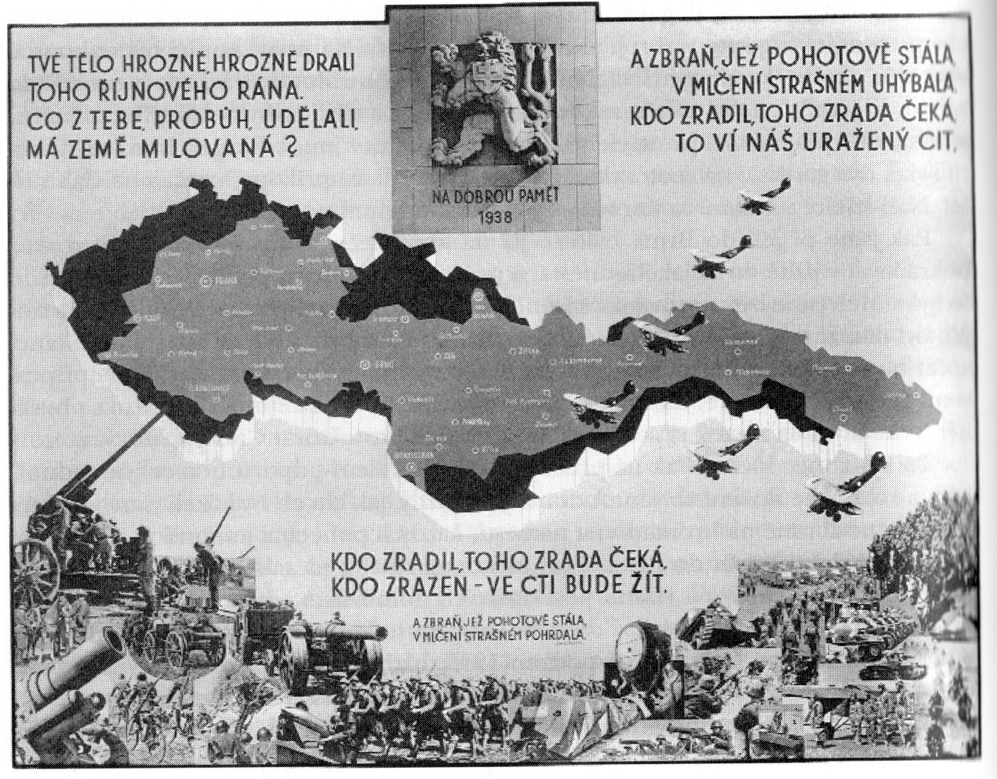 Responding to the Munich Agreement